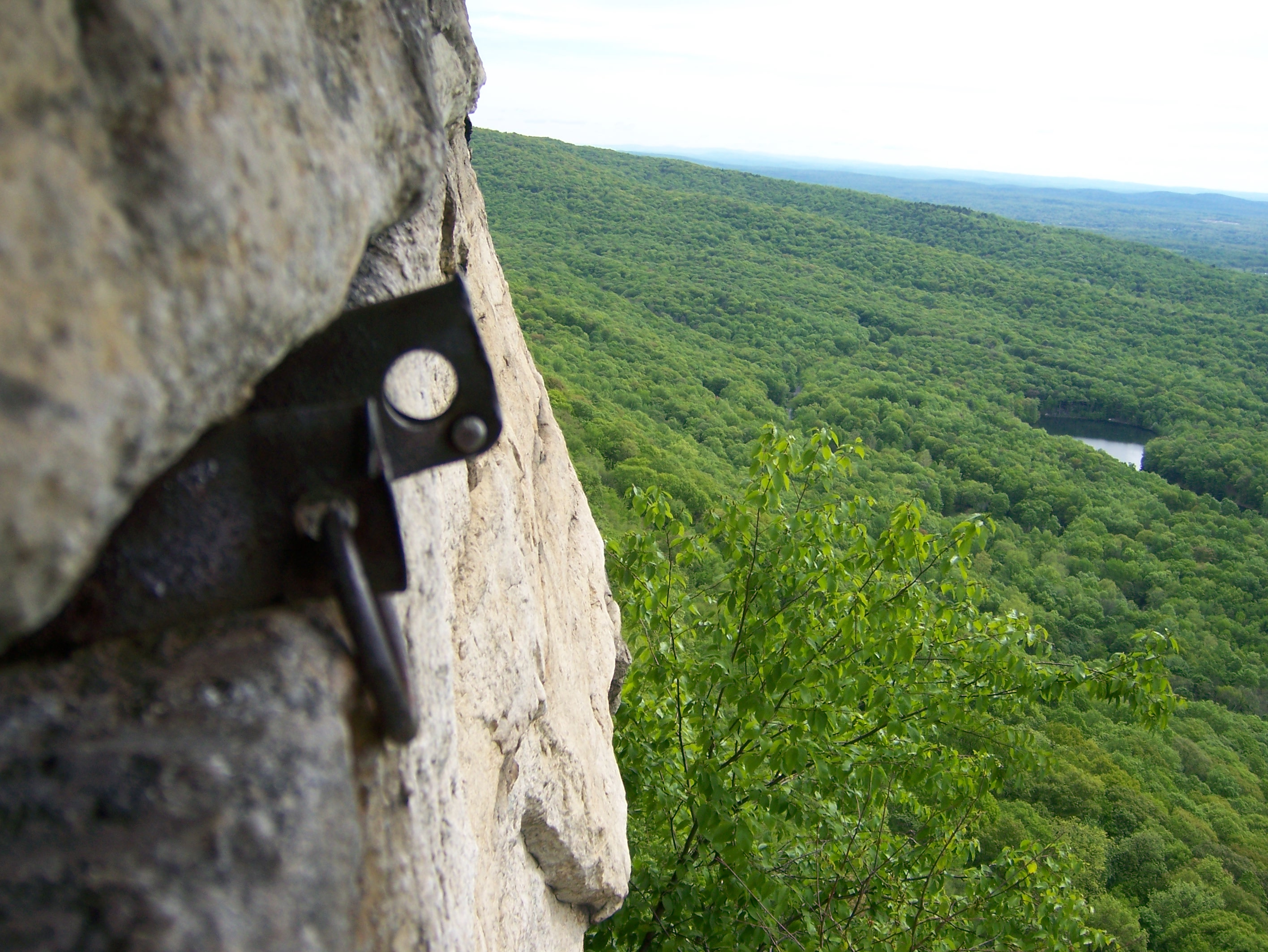 Old angle pitons on Shockley's Ceiling route at the Trapps cliff of Shawangunk Ridge located at Mohonk Preserve near New Paltz, New York.